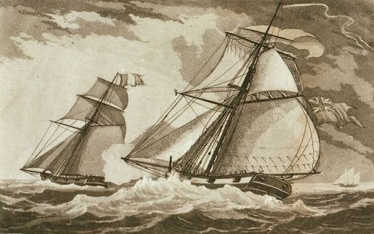 The Nimble Cutter in Chace [sic!] of an Enemy; aquatint